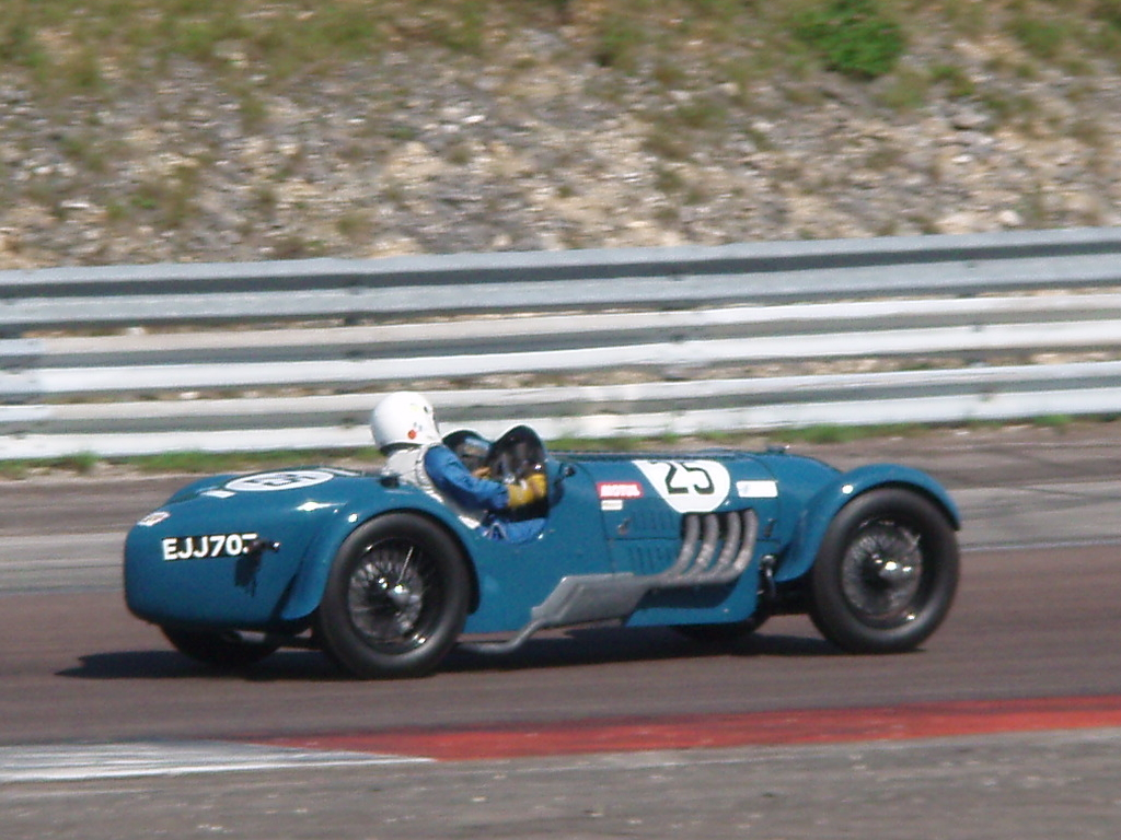 An 1936 Alta 2L S/C Sports race car in the 2007 "Grand Prix de l'Âge d'Or" in Dijon-Prenois.